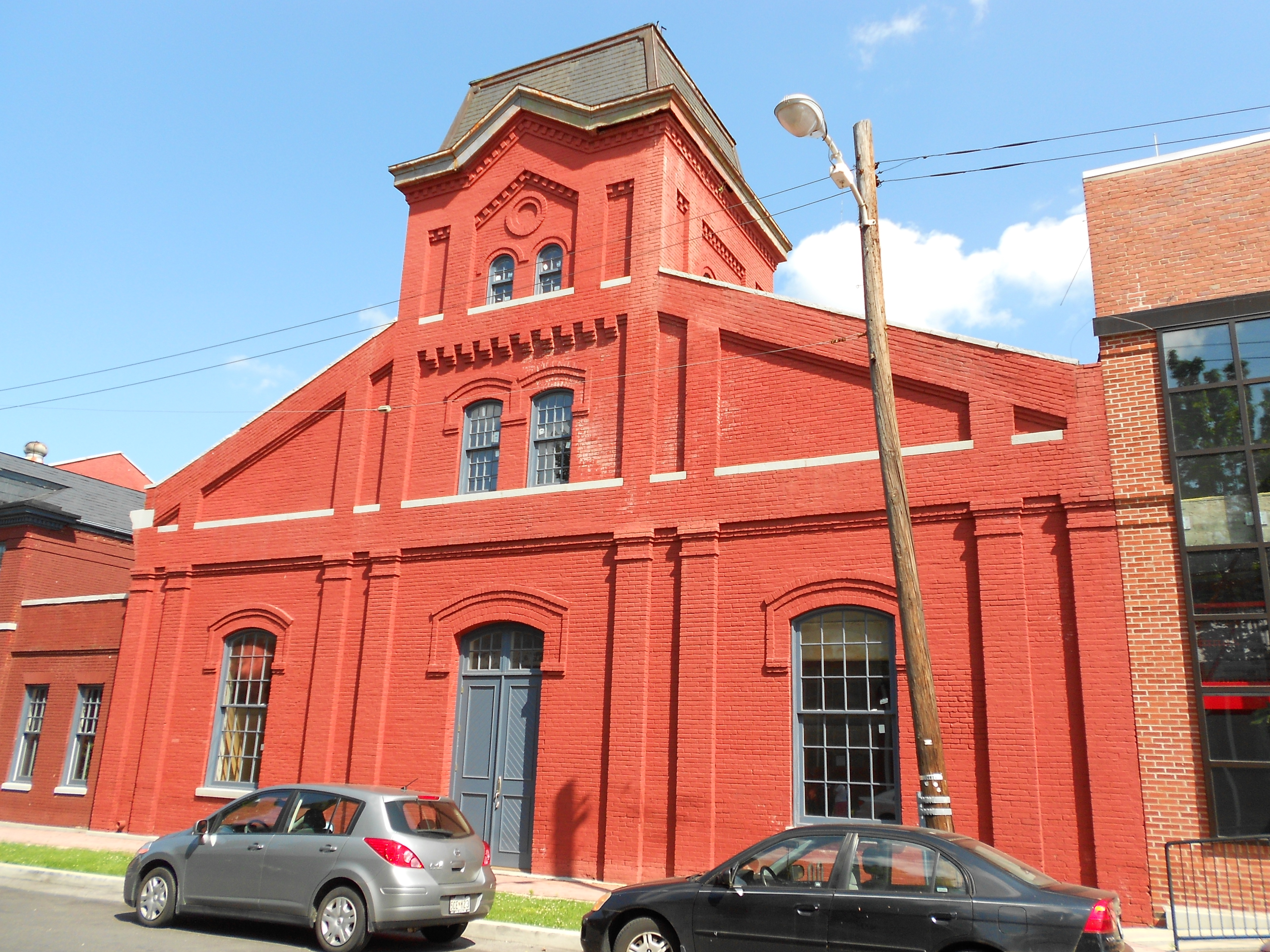 Equitable Gas building in Locust Point in Baltimore. Listed on the NRHP